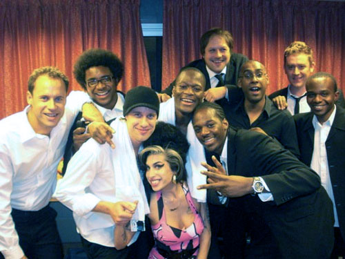 Amy Winehouse with backing singers Zalon and Heshima Thompson and her band backstage